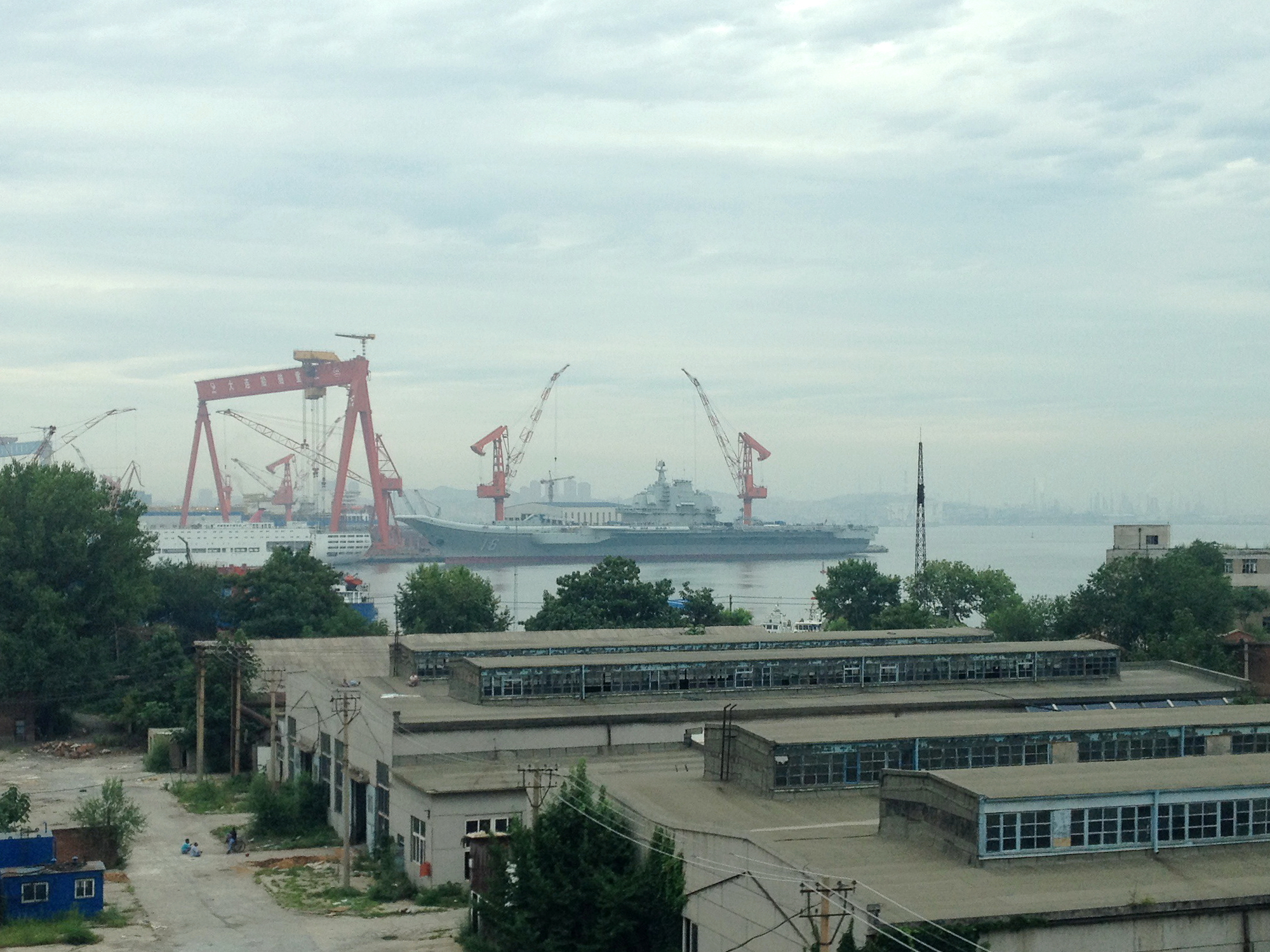 Liaoning aircraft carrier